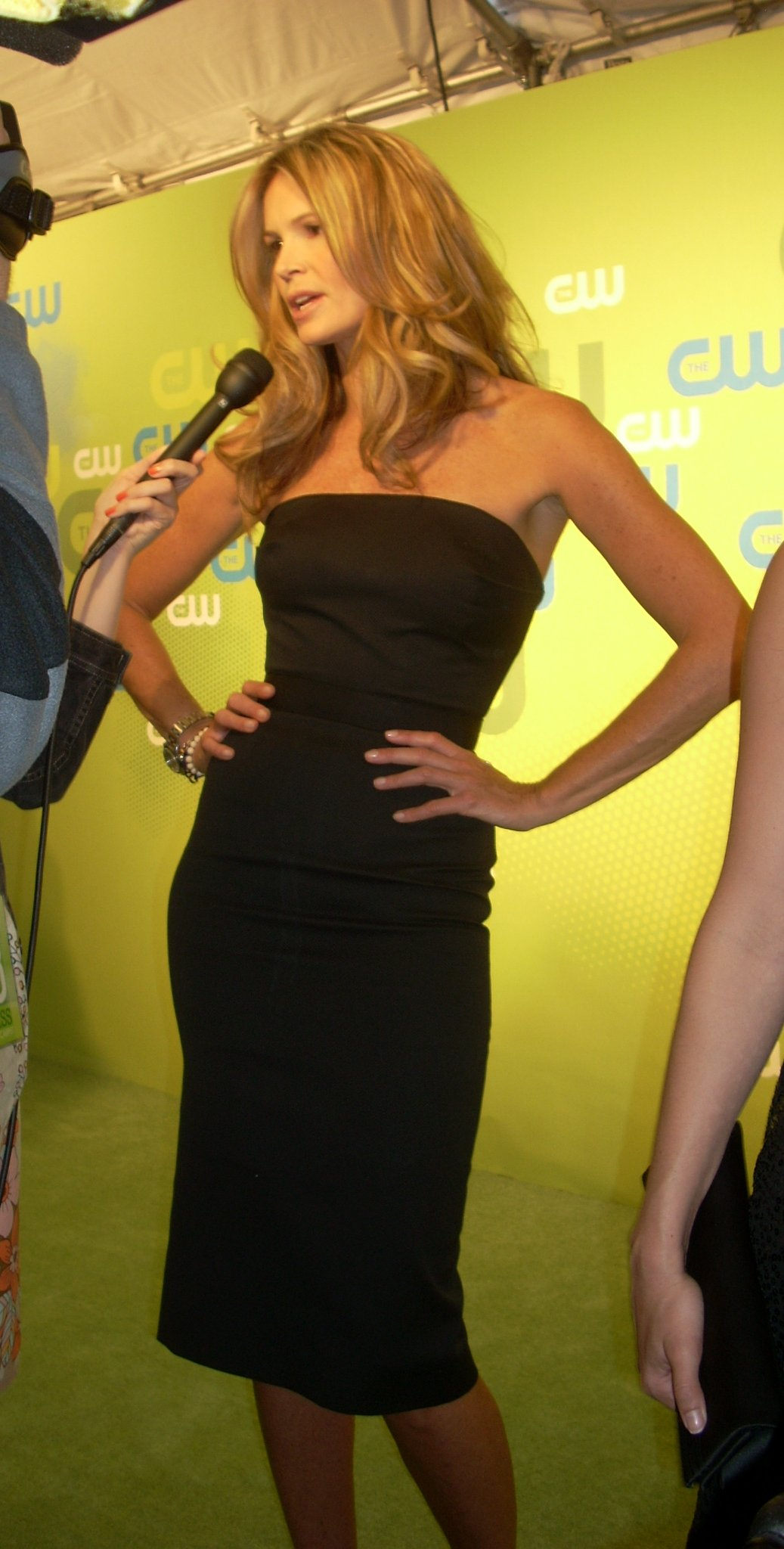 Elle Macpherson at the CW Upfront Presentation: Green Carpet Arrivals, Madison Square Garden, New York City - May 21, 2009